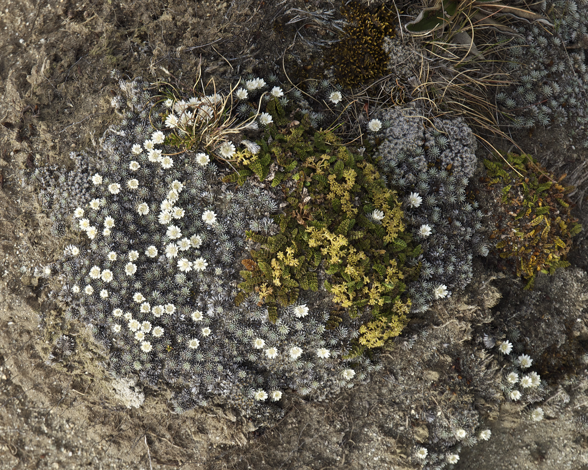 Raoulia grandiflora, Kepler Track, New Zealand